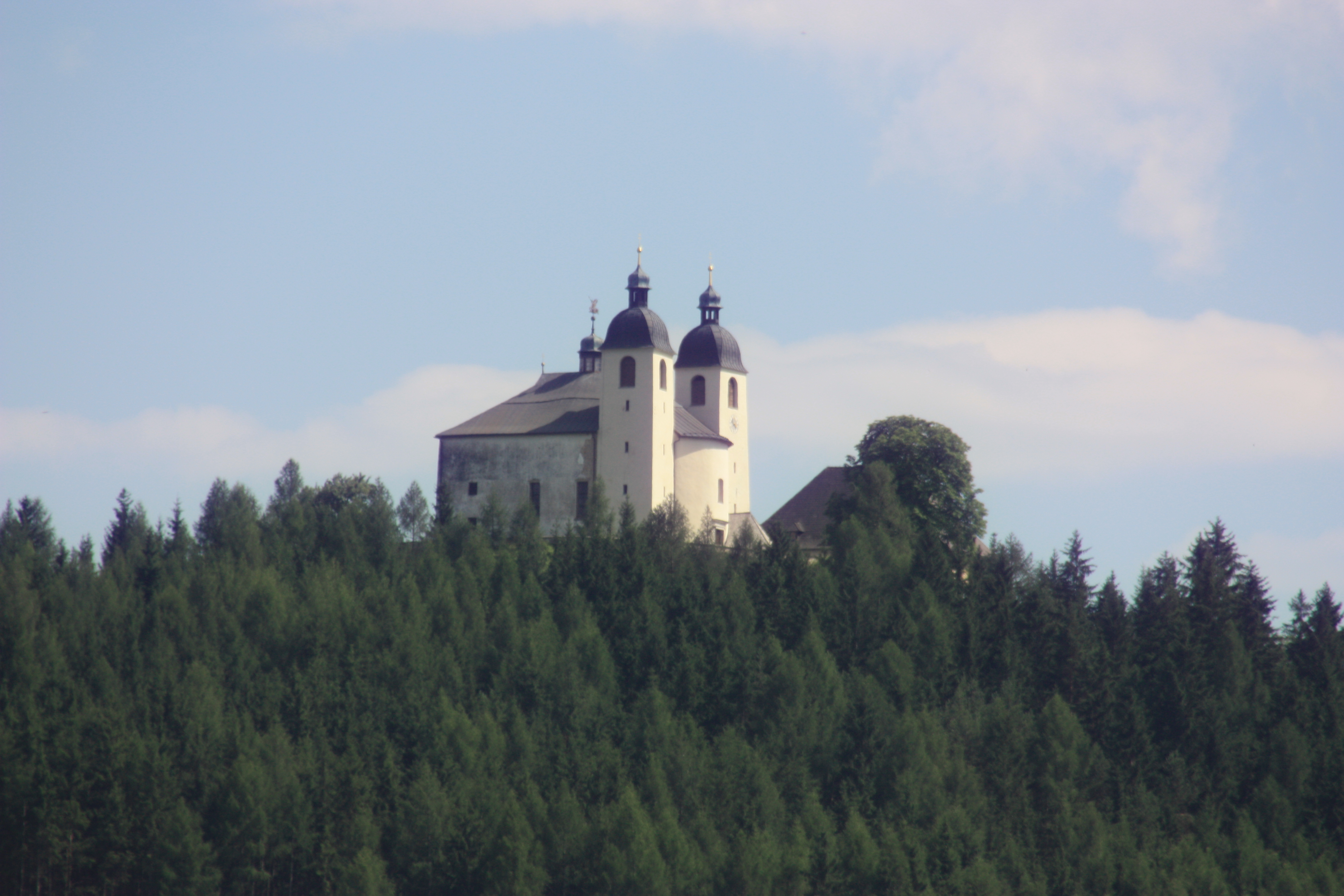 Pilgrimage Maria Hilf Locality:Maria Hilf Community:Guttaring District:Sankt Veit an der Glan State:Carinthia Country:Austria